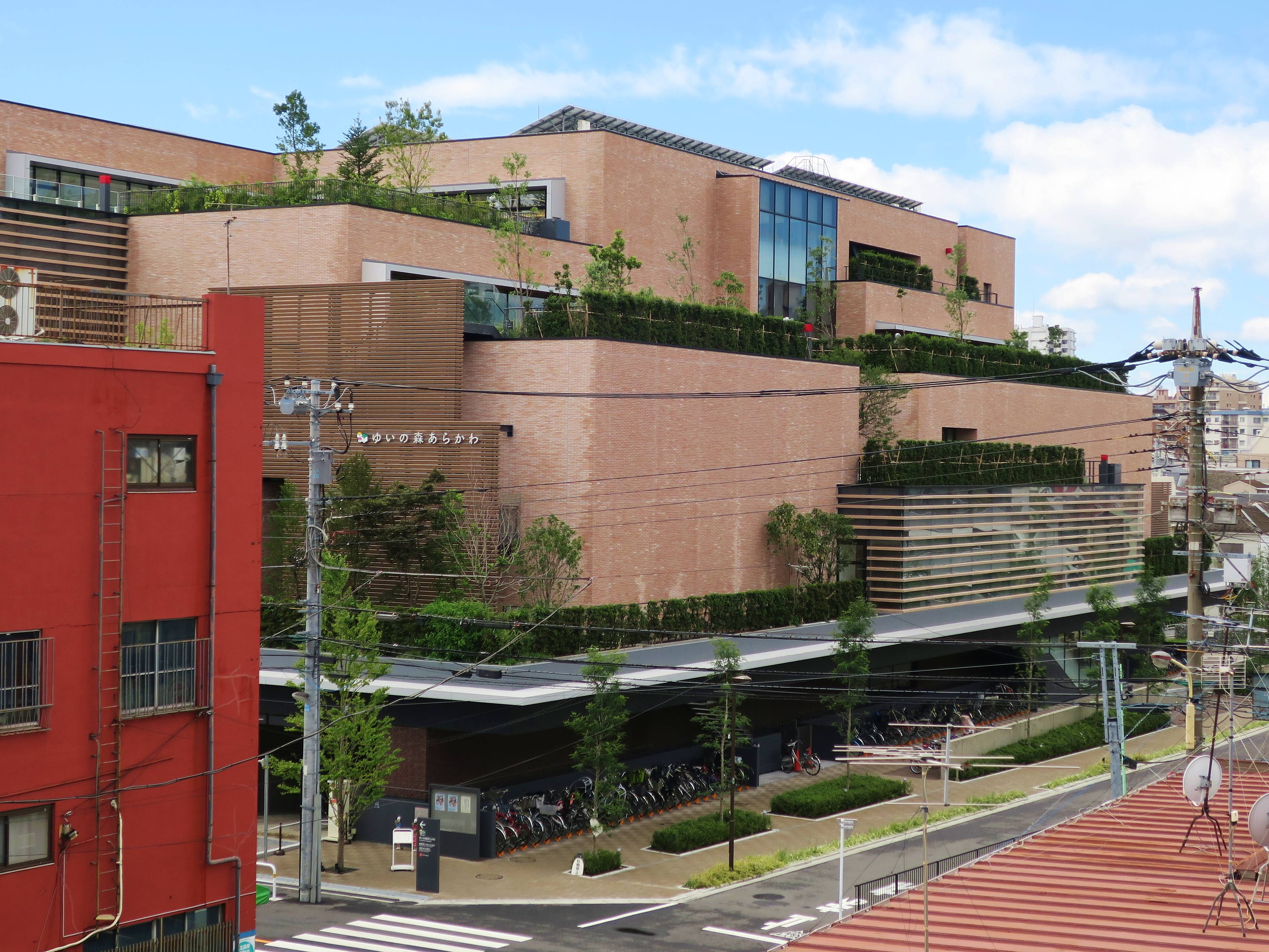 Yuinomori Arakawa.